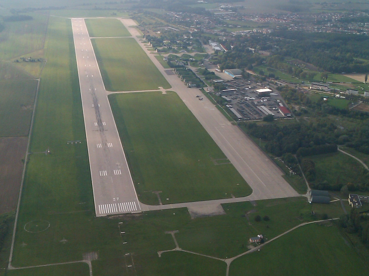 Pardubice Airport (Czech Republic) - air photoEsperanto: Flughaveno Pardubice (Ĉeĥio) - aerofoto